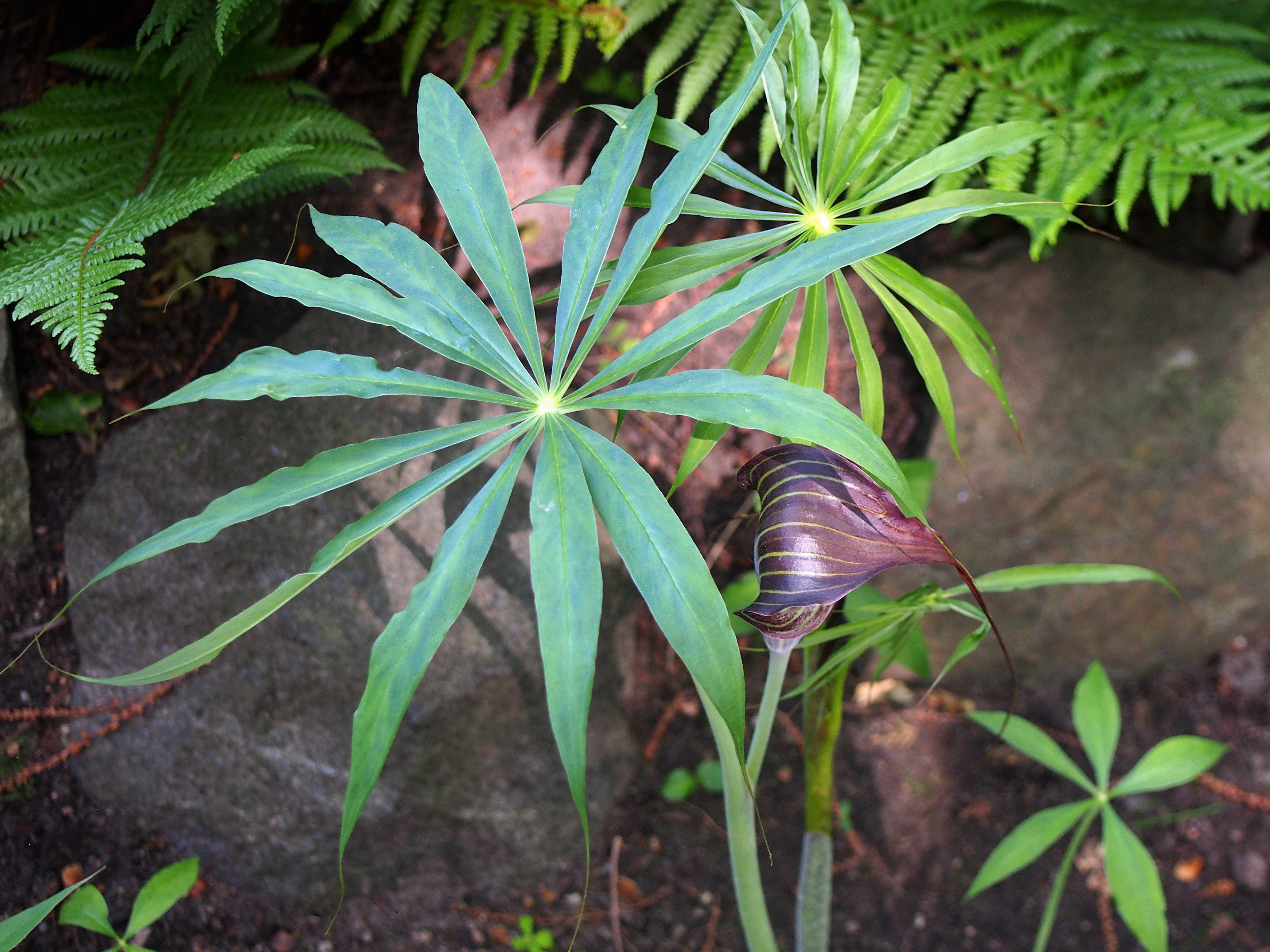 Arisaema erubescens flowering plant, cultivated in Wrocław University Botanical Garden, Wrocław, Poland.